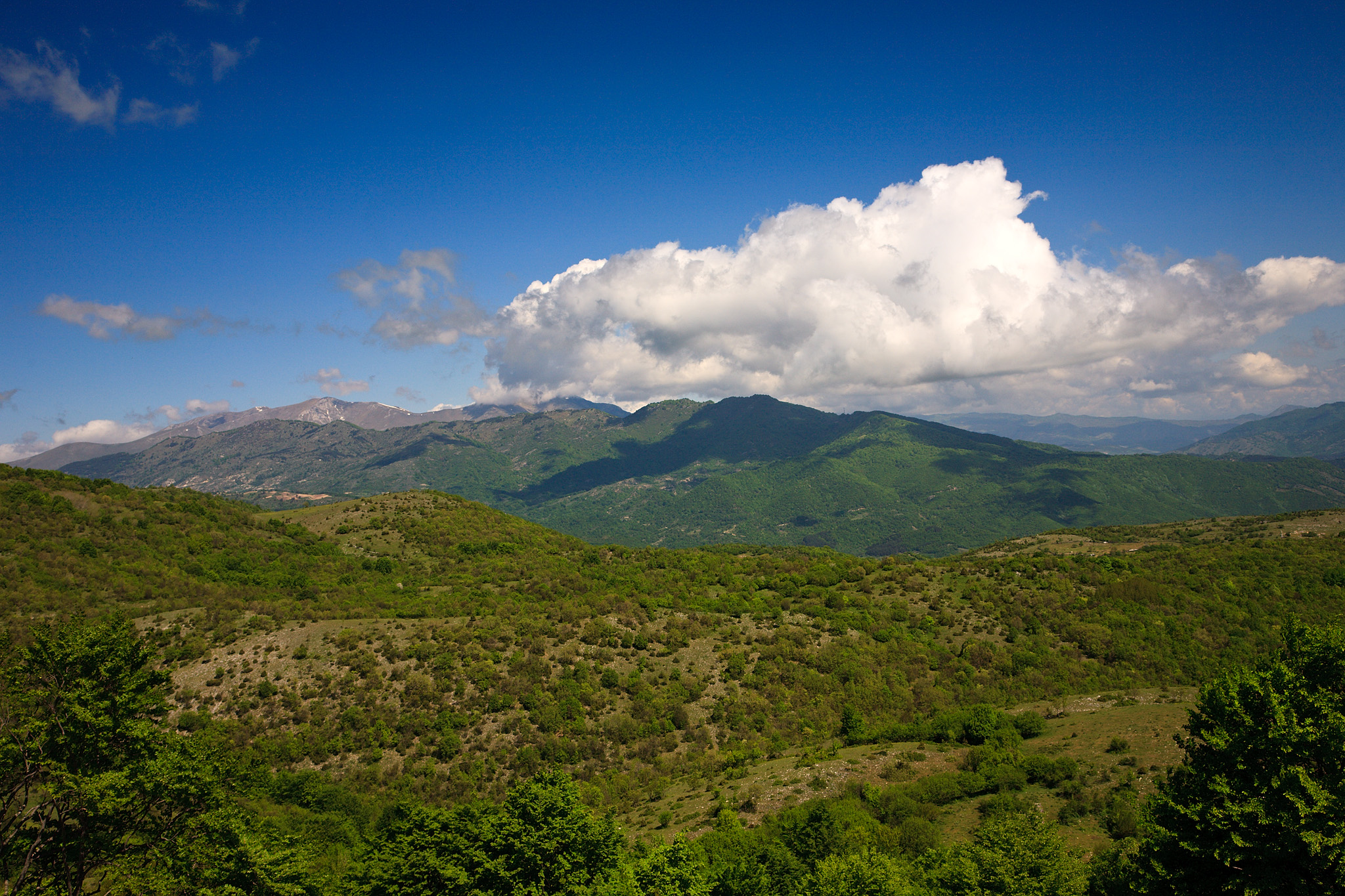 The Cherna gora (Maurovuno) mountain as seen from the nearby Sminitsa (Menokio) mountain. To the left behind Cherna gora is the Alibotush (Orvilos) mountain